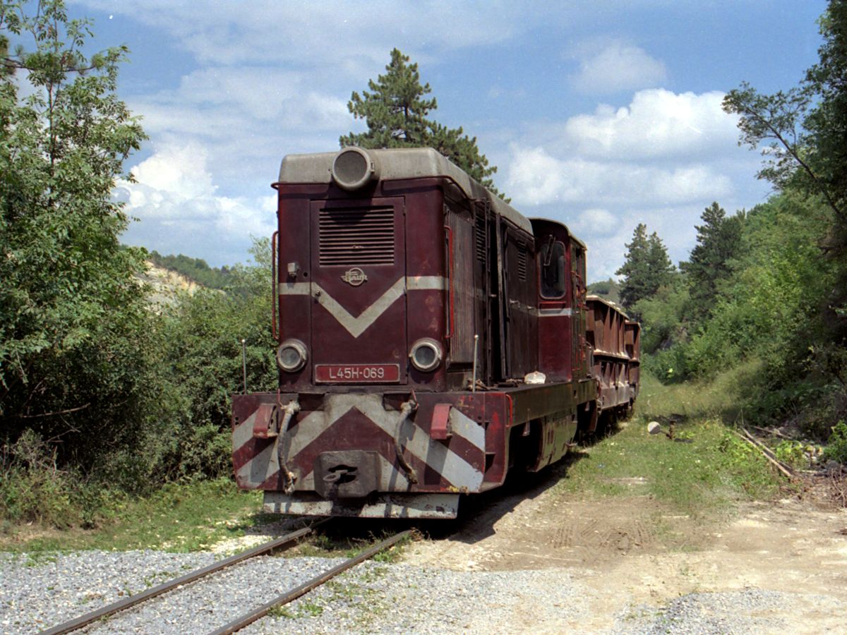 a locomotive on the Retișoara narrow gauge line